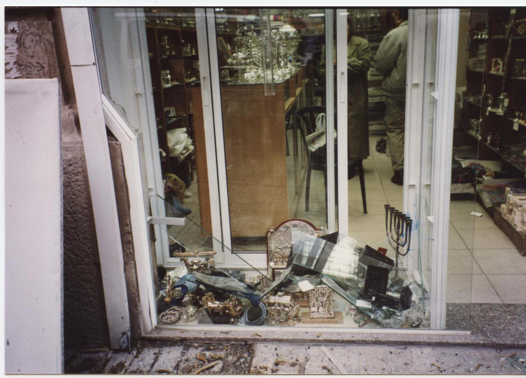 Broken glass, the day after a terrorist attack in Jerusalem. (down town) December 2001